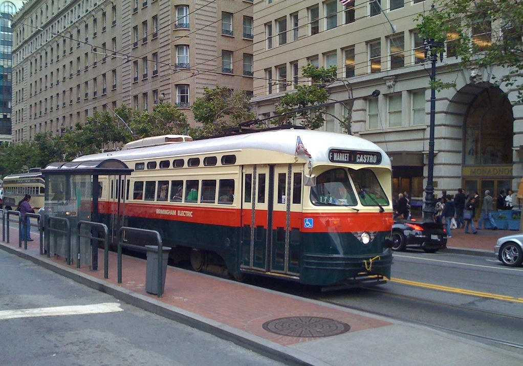 San Francisco Streetcar 1077, an ex-Newark, ex-Minneapolis PCC-type streetcar painted in the livery colors of the former Birmingham Electric Company (of Birmingham, Alabama). The car was built for the Twin City Rapid Transit Co. (Minneapolis-St. Paul) in 1947. It was sold to Newark in 1953, and it was acquired by San Francisco Muni from Newark in 2004.